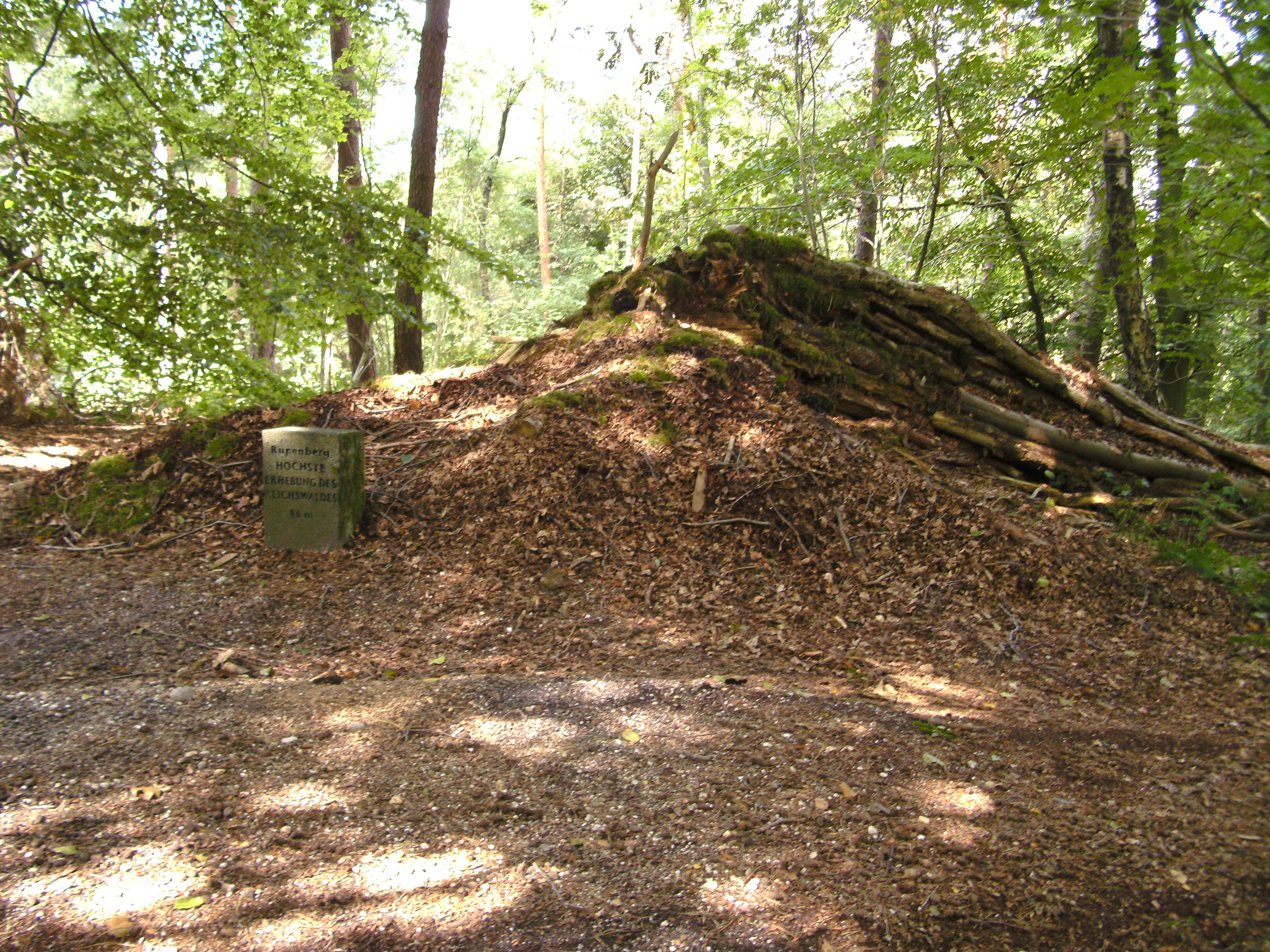 A picture of the Rupenberg taken in August 2017